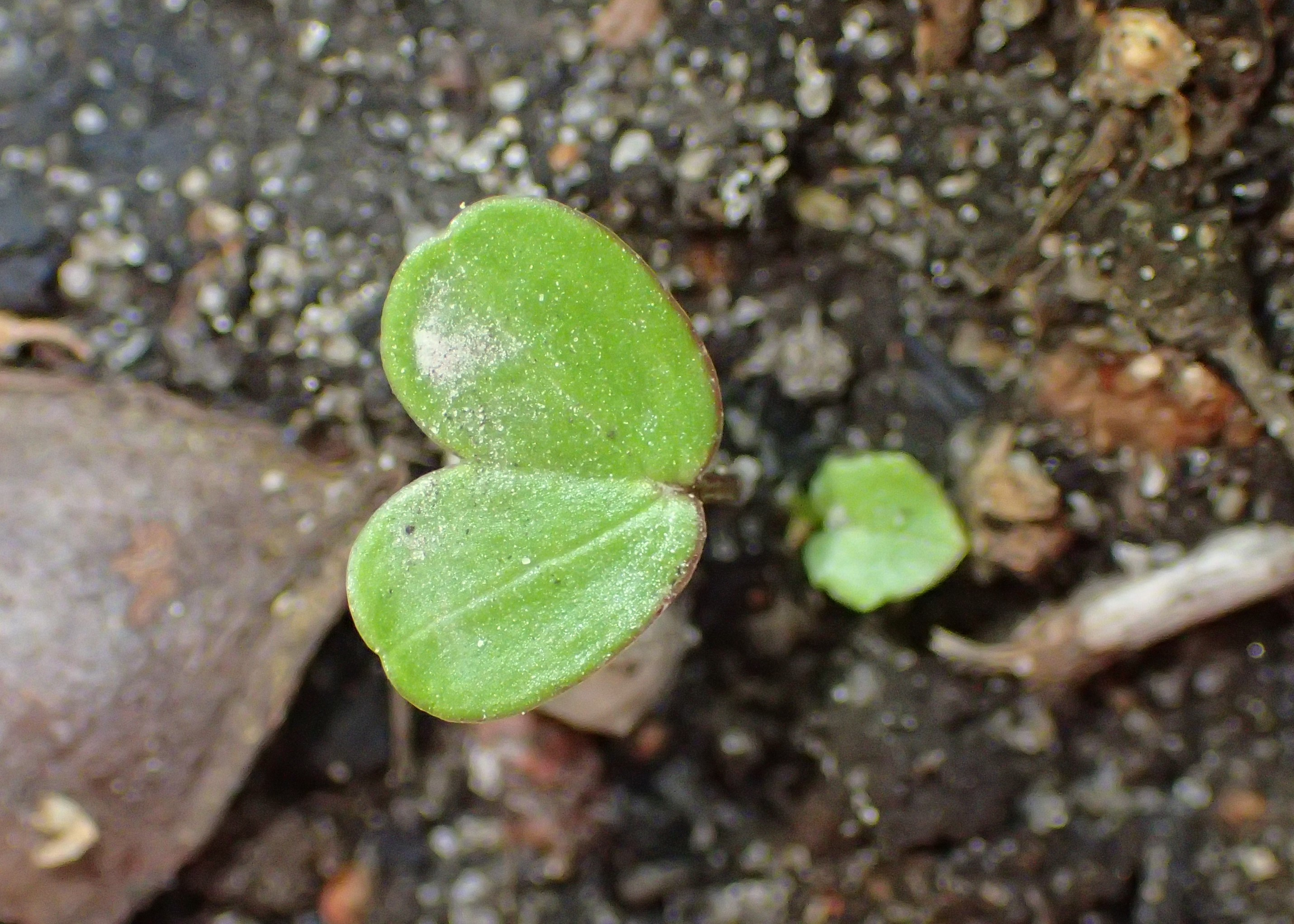 Ficaria verna seedling with cotyledon. Botanical Garden in Warsaw